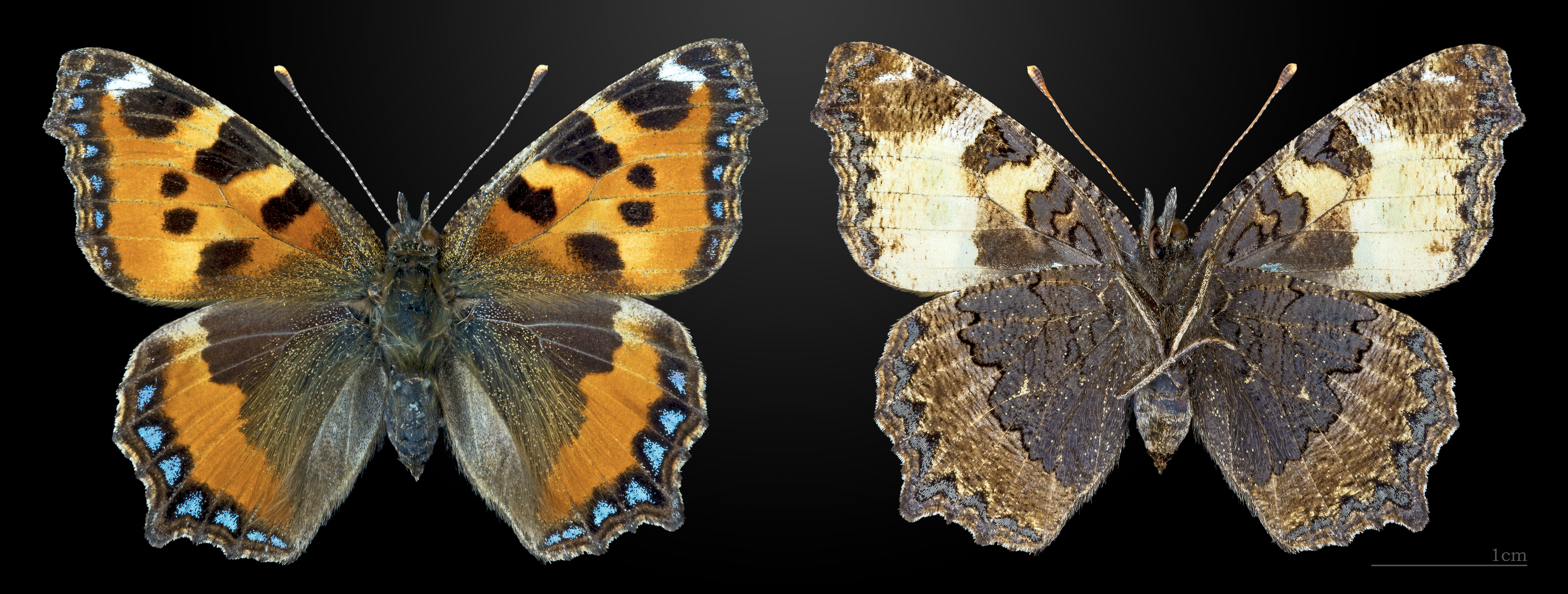 small tortoiseshell - Two views of same specimen